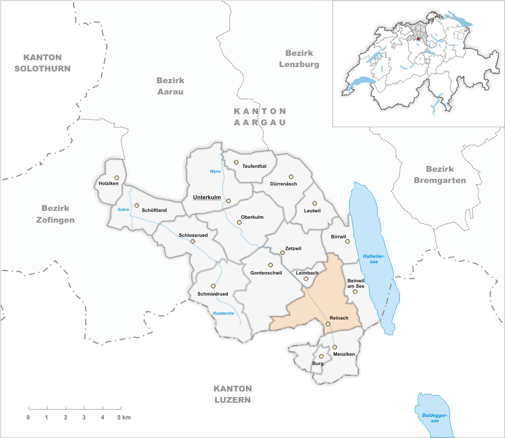 Municipality Reinach